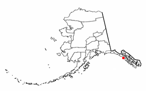 Adapted from Wikipedia's AK borough maps by Seth Ilys.